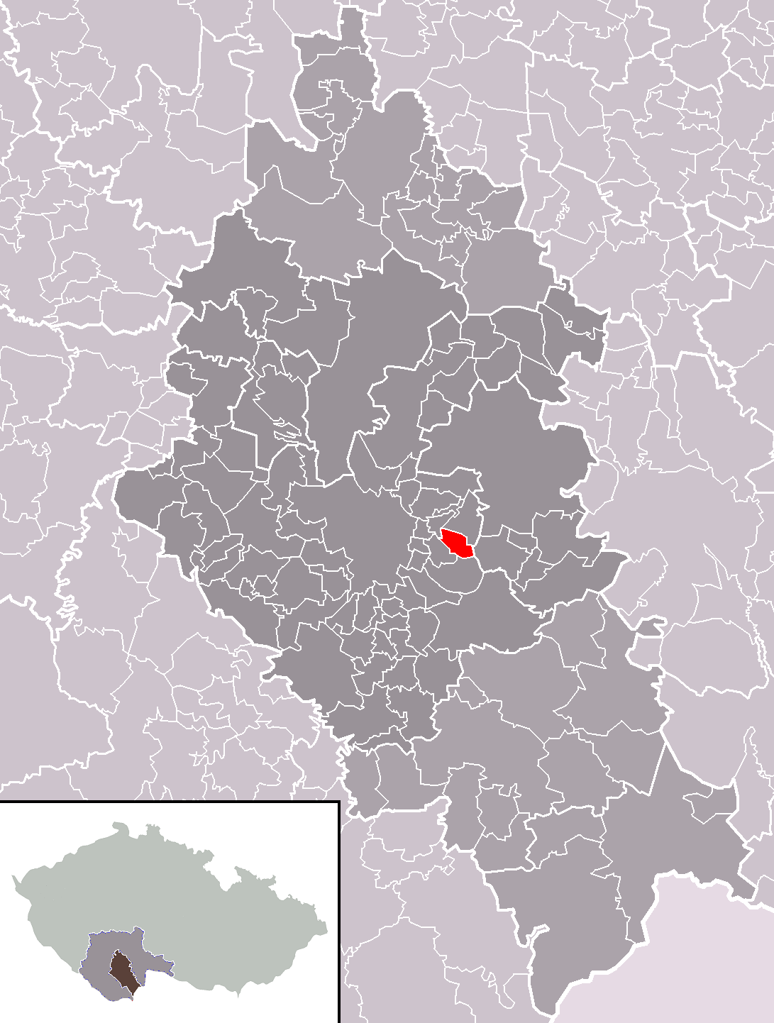 Location of Hlincová Hora municipality within České Budějovice District and administrative area of České Budějovice as a Municipality with Extended Competence.